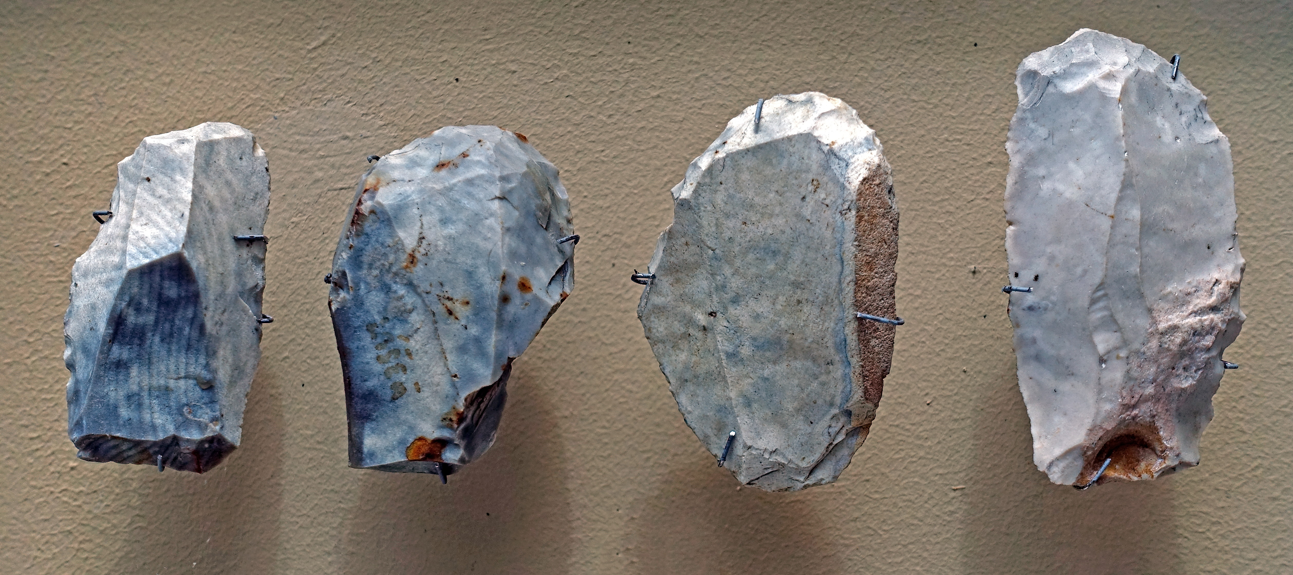 The two main tools in the Bohunician culture were the point and the scraper, four examples of which are shown here, which were used mainly for scraping skins in the leather making process, and for smoothing wood for spear shafts and other wooden tools. Anthropos Pavilion/Moravian Museum, Brno, Czech Republic